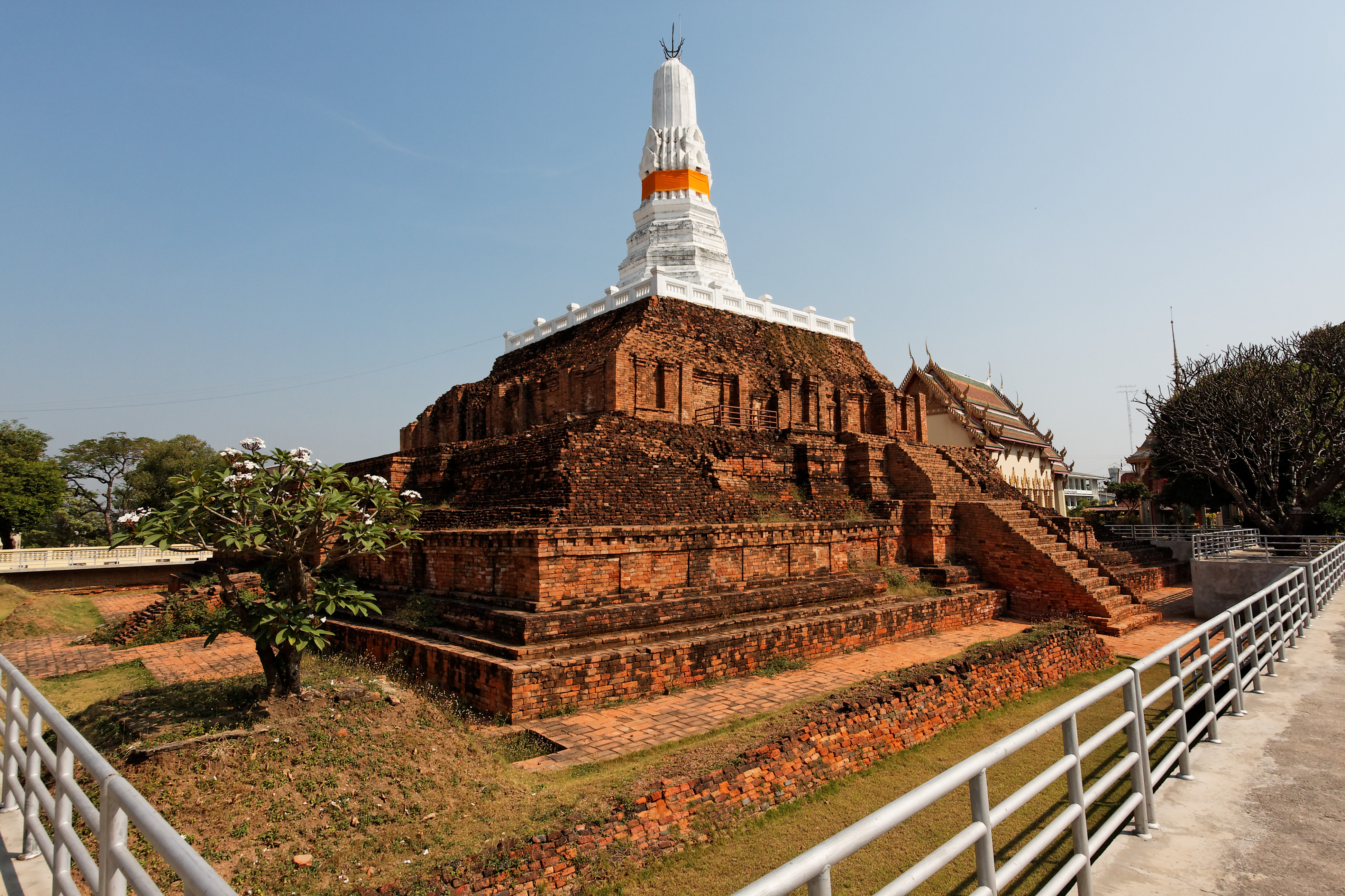 Chedi Phra Pathon is a Dvaravati temple in Nakhon Pathom, Thailand